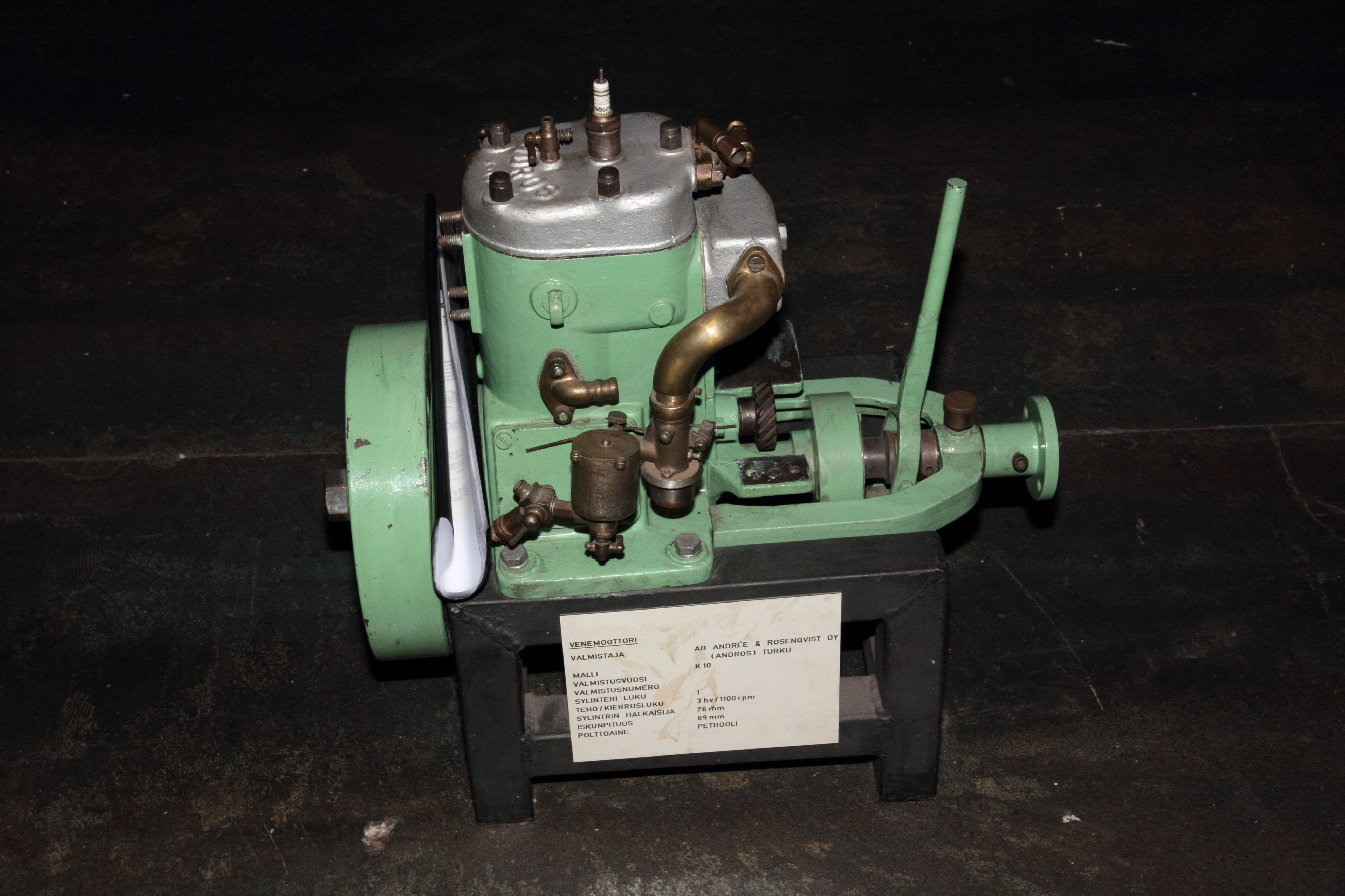 Andrée & Rosenqvist K10 3 hp petrol boat engine in Forum Marinum maritime museum.